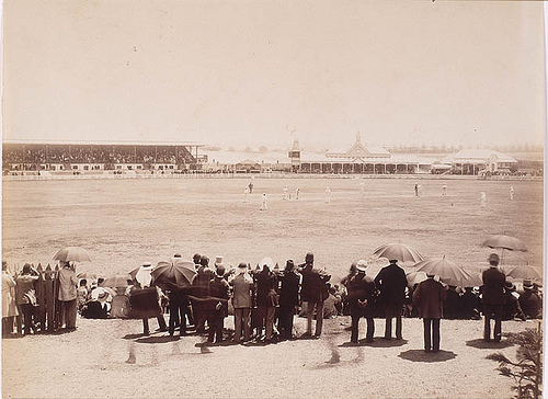 England v Australia at the Sydney Cricket Ground in January 1883.